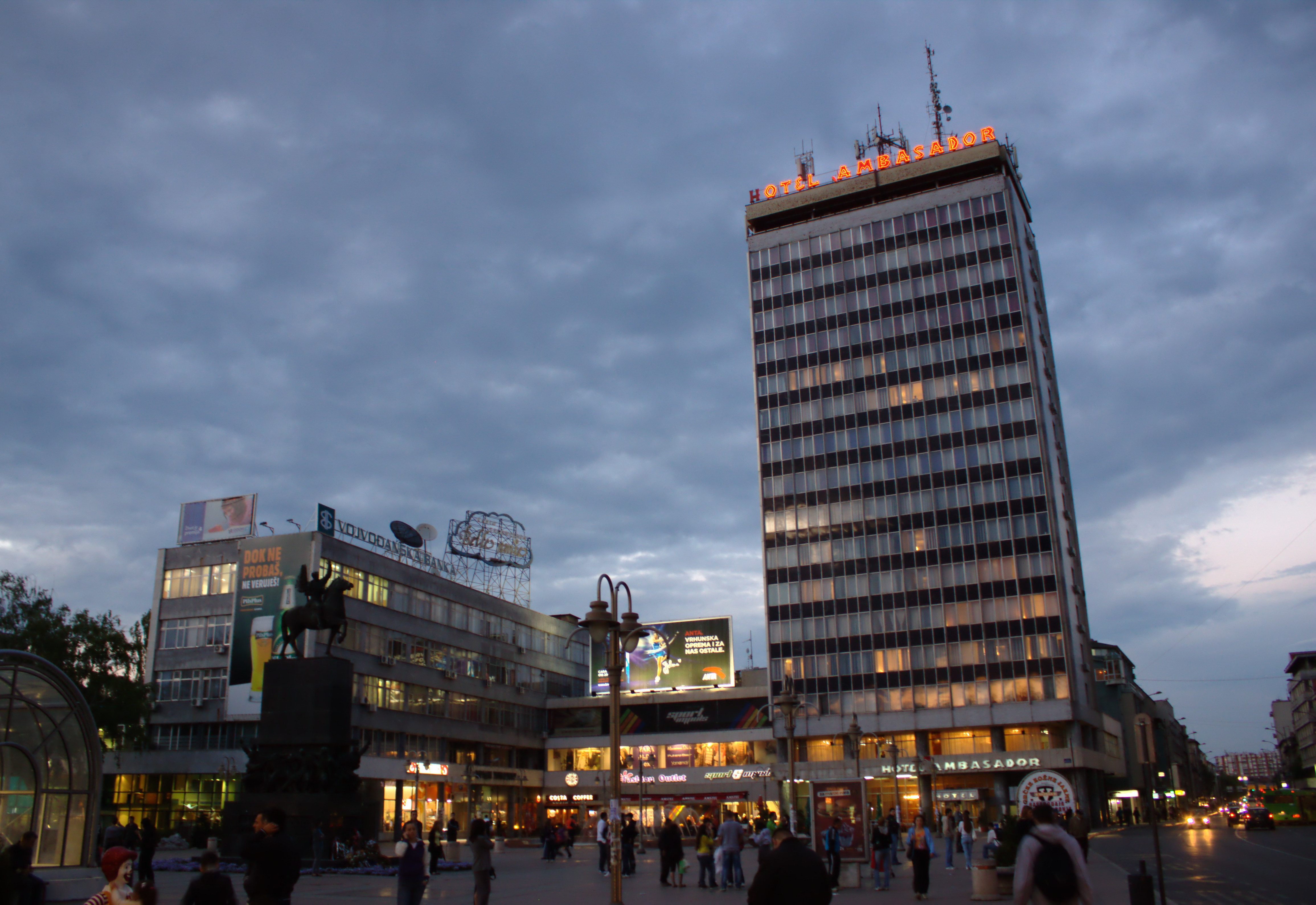 Main square in the city of Niš during the evening hours, Serbia